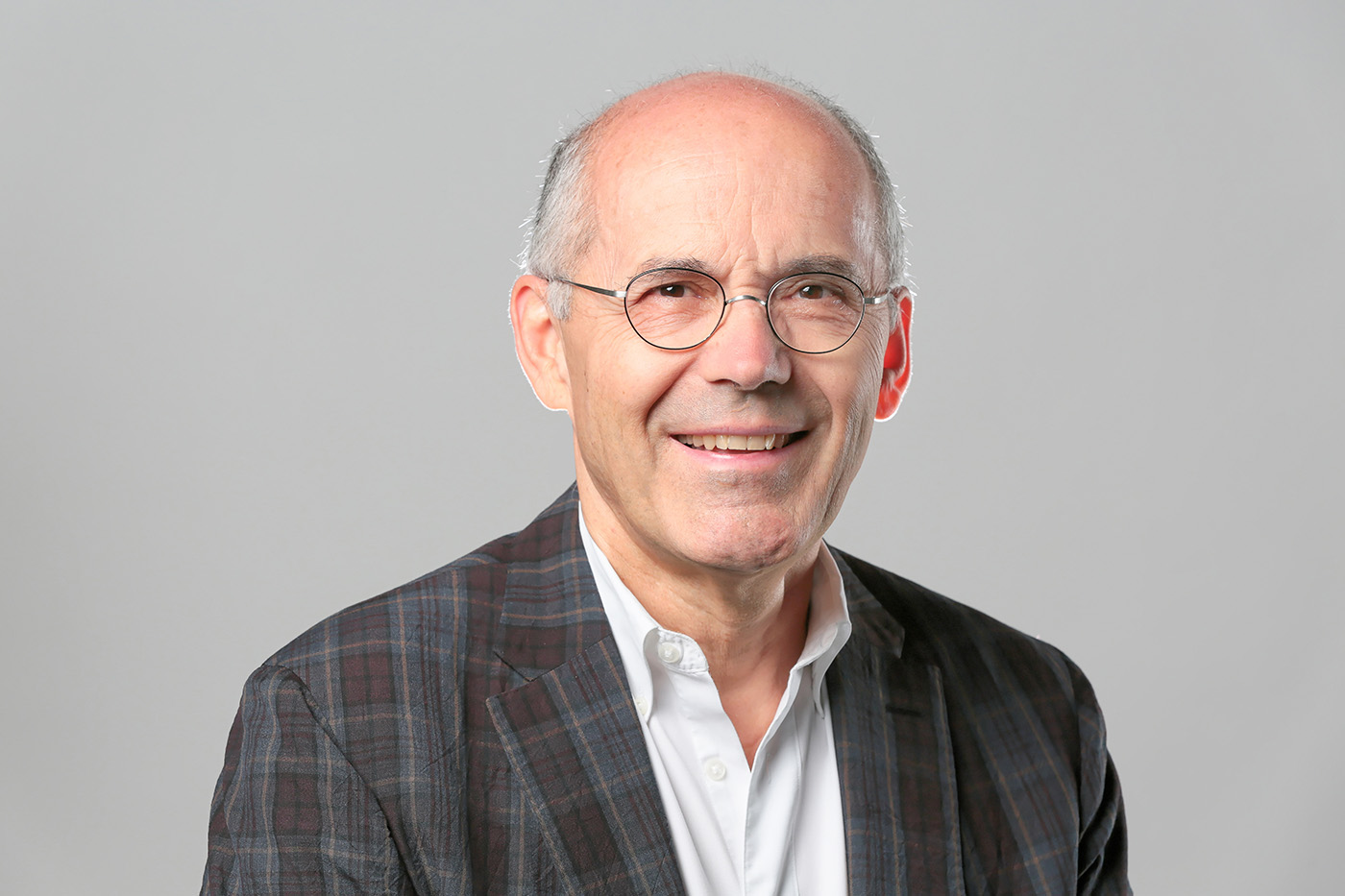 Prof. Georges Meylan